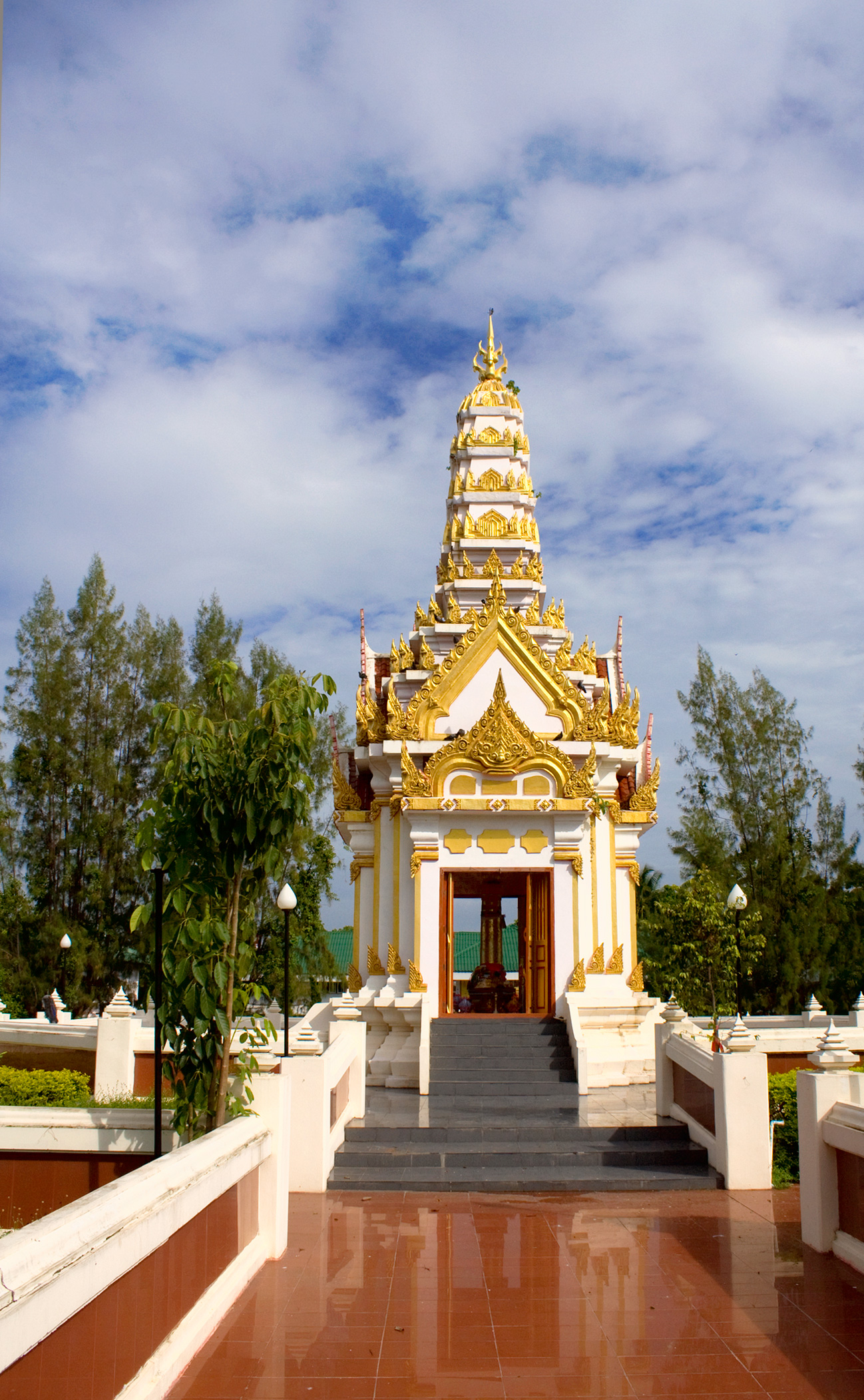 Sao Lak Mueang Phitsanulok (City Pillar Shrine)